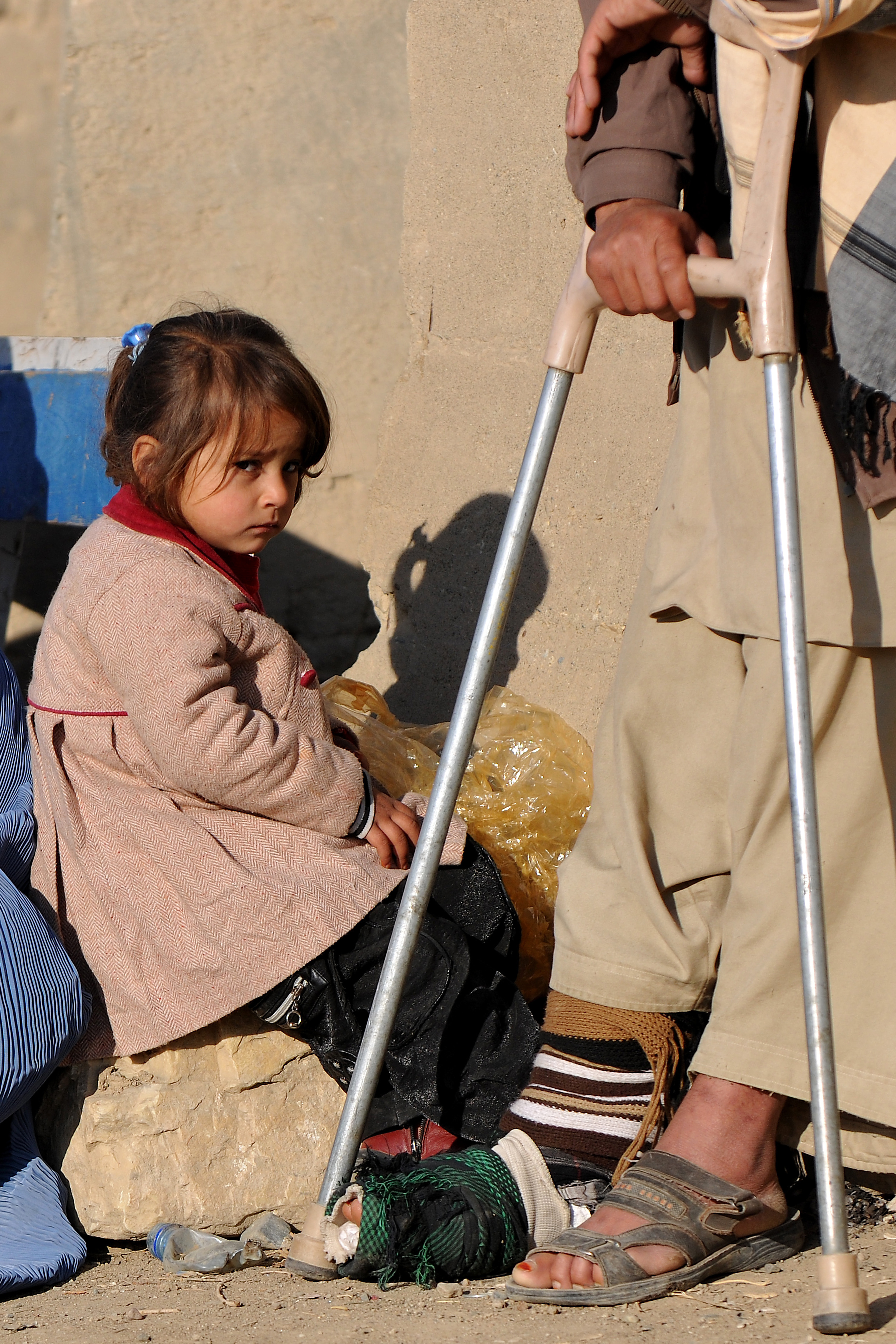 A local Afghan girl waits as her guardian begins his processing through the medical entry control point at Bagram Airfield, Afghanistan, Dec. 2, 2012. The Expeditionary Security Forces Group entry control point defenders and Afghan local guard provide security and collect biometrics to identify and track the records for all the incoming patients. (U.S. Air Force photo/Senior Airman Chris Willis)